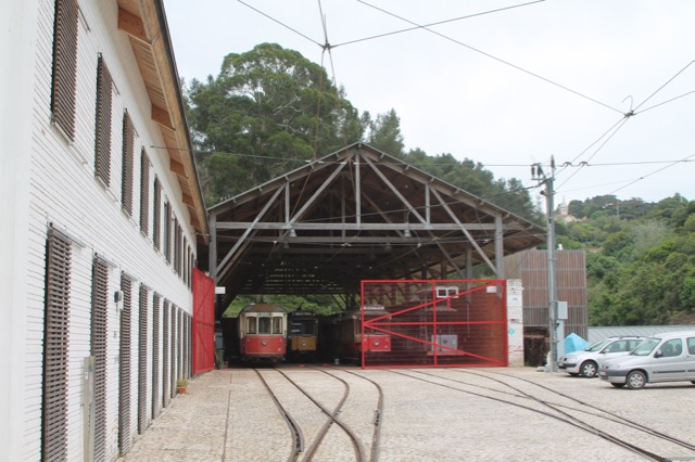 Ribeira depot